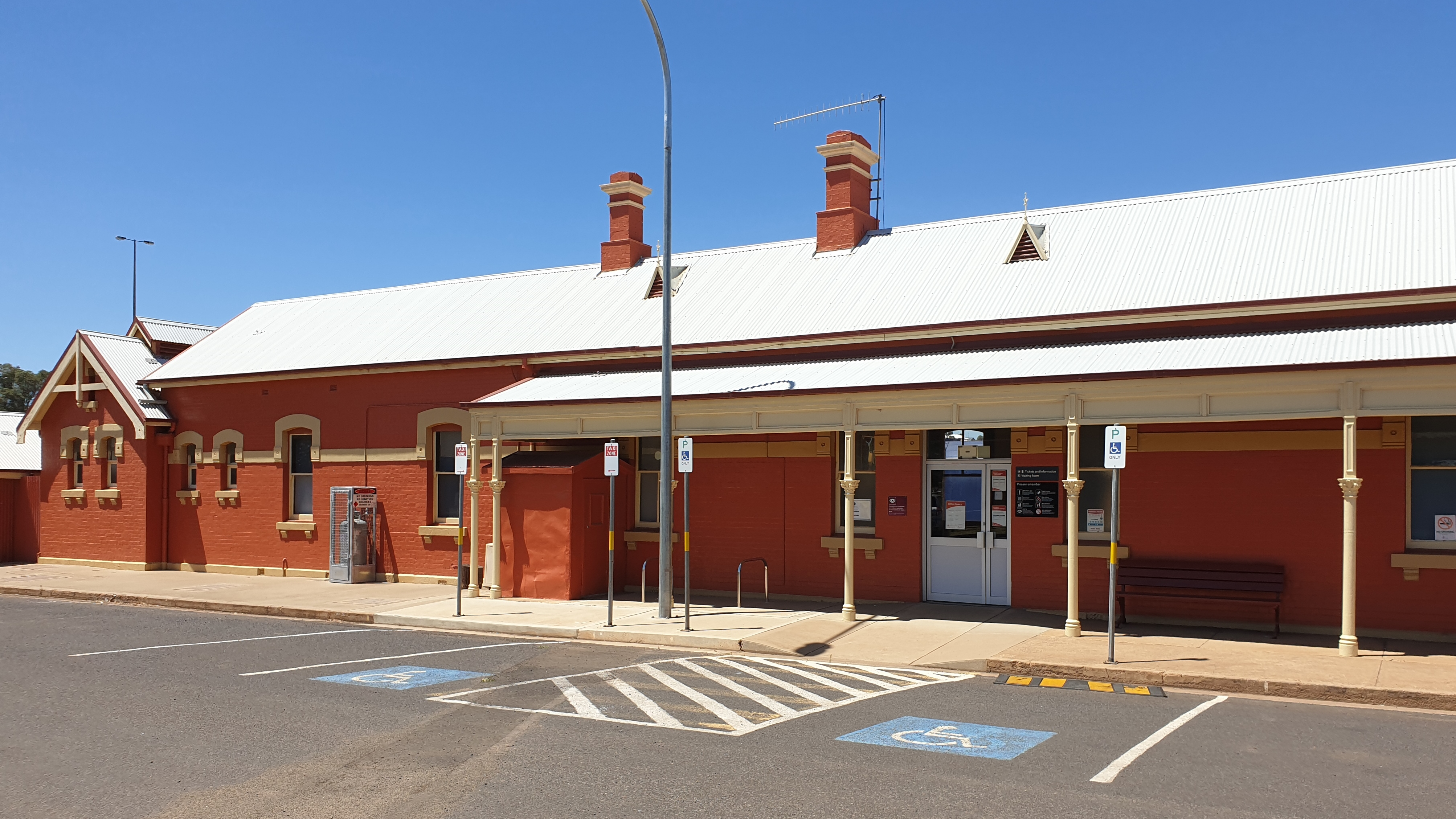 Parkes railway station, New South Wales, Australia.